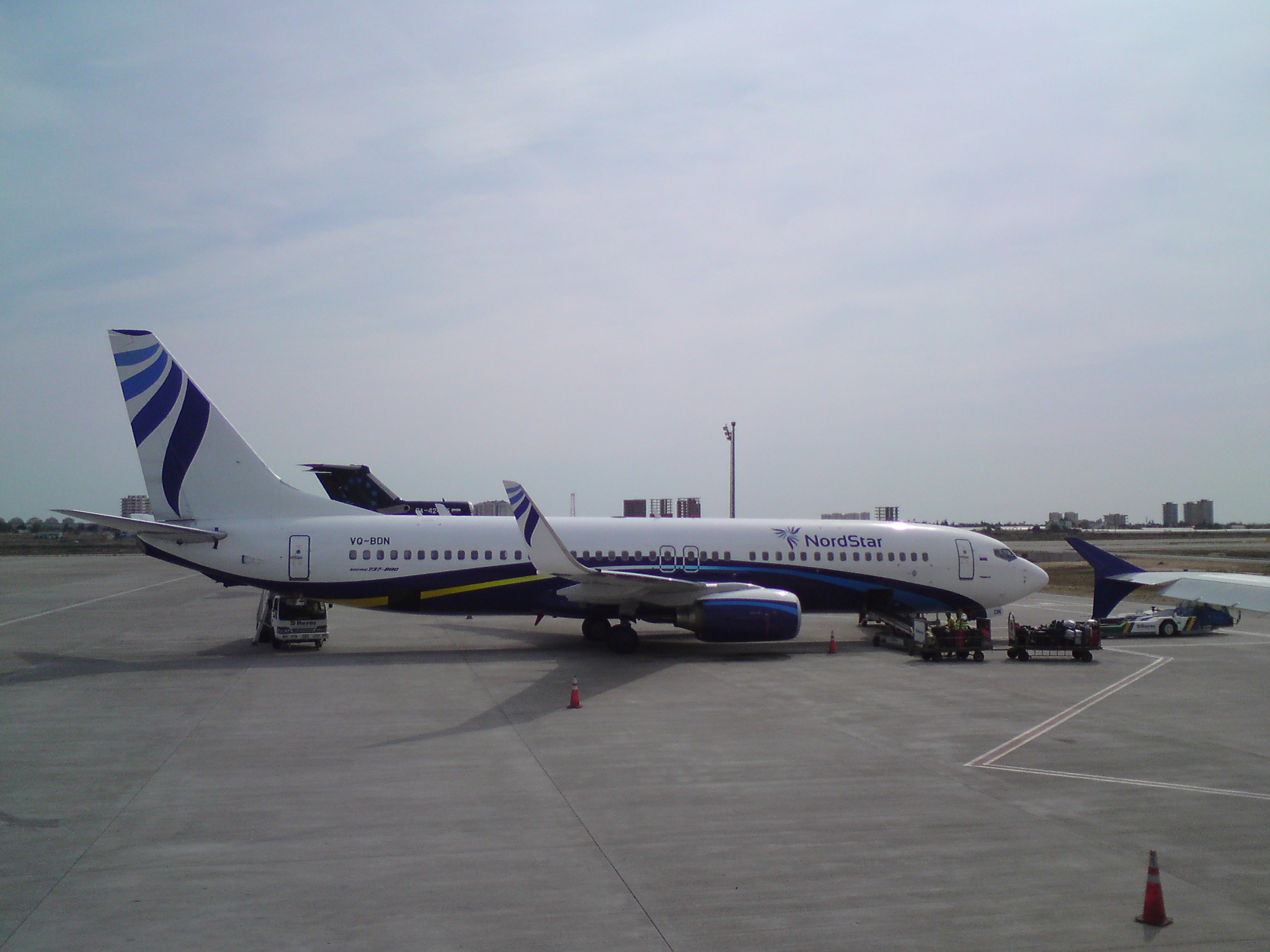 NordStar Boeing 737-800 (VQ-BDN) at Antalya Airport